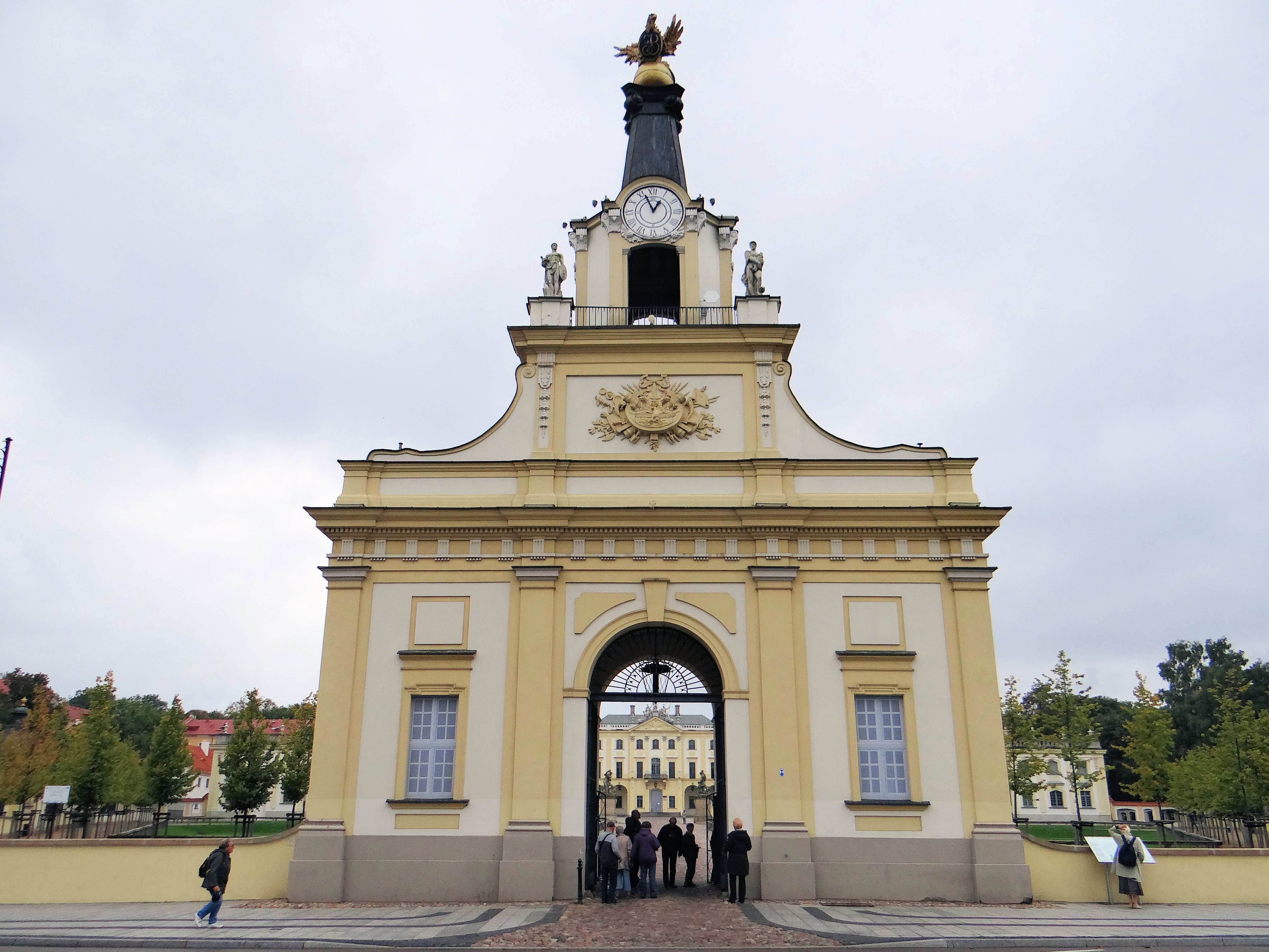 Tower and Gate of the Branicki Palace in Białystok